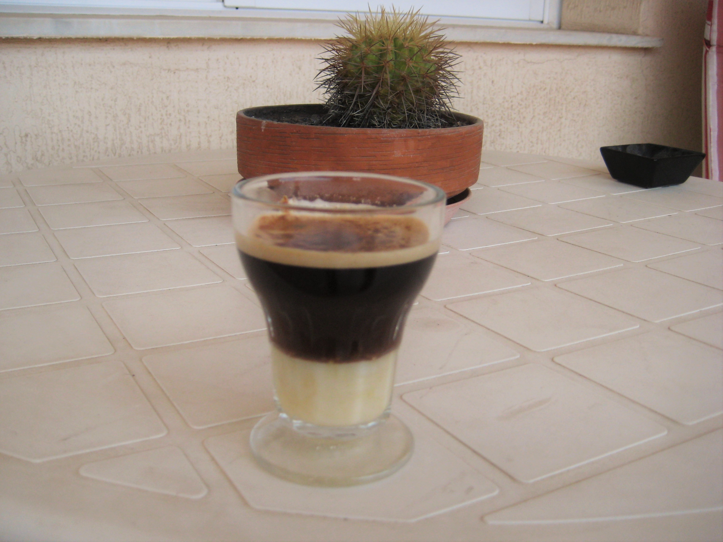 Typical Asian Cafe in the City of Cartagena Spain